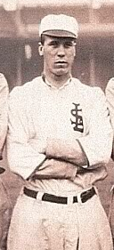 Gus Williams, former outfielder for the St. Louis Browns.